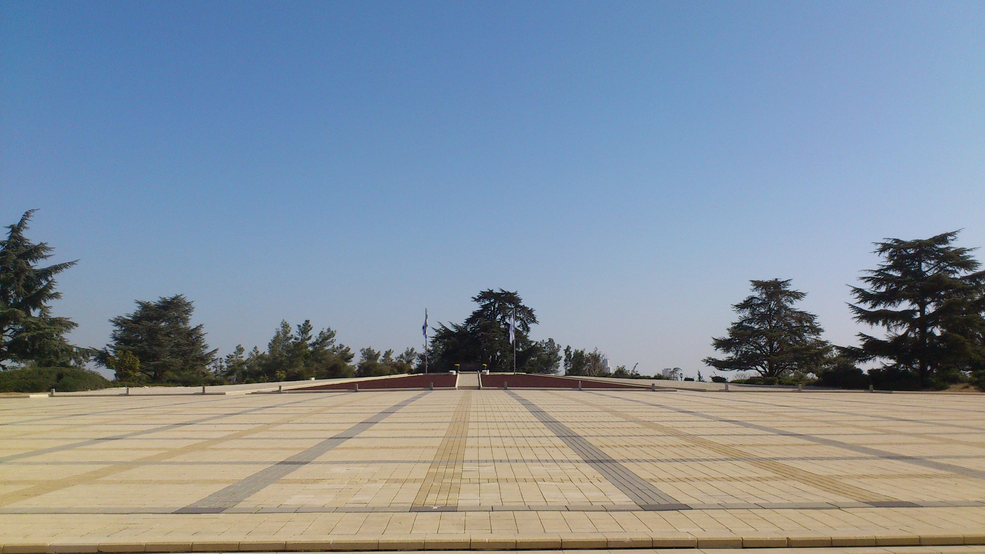 Mount Herzl Plaza